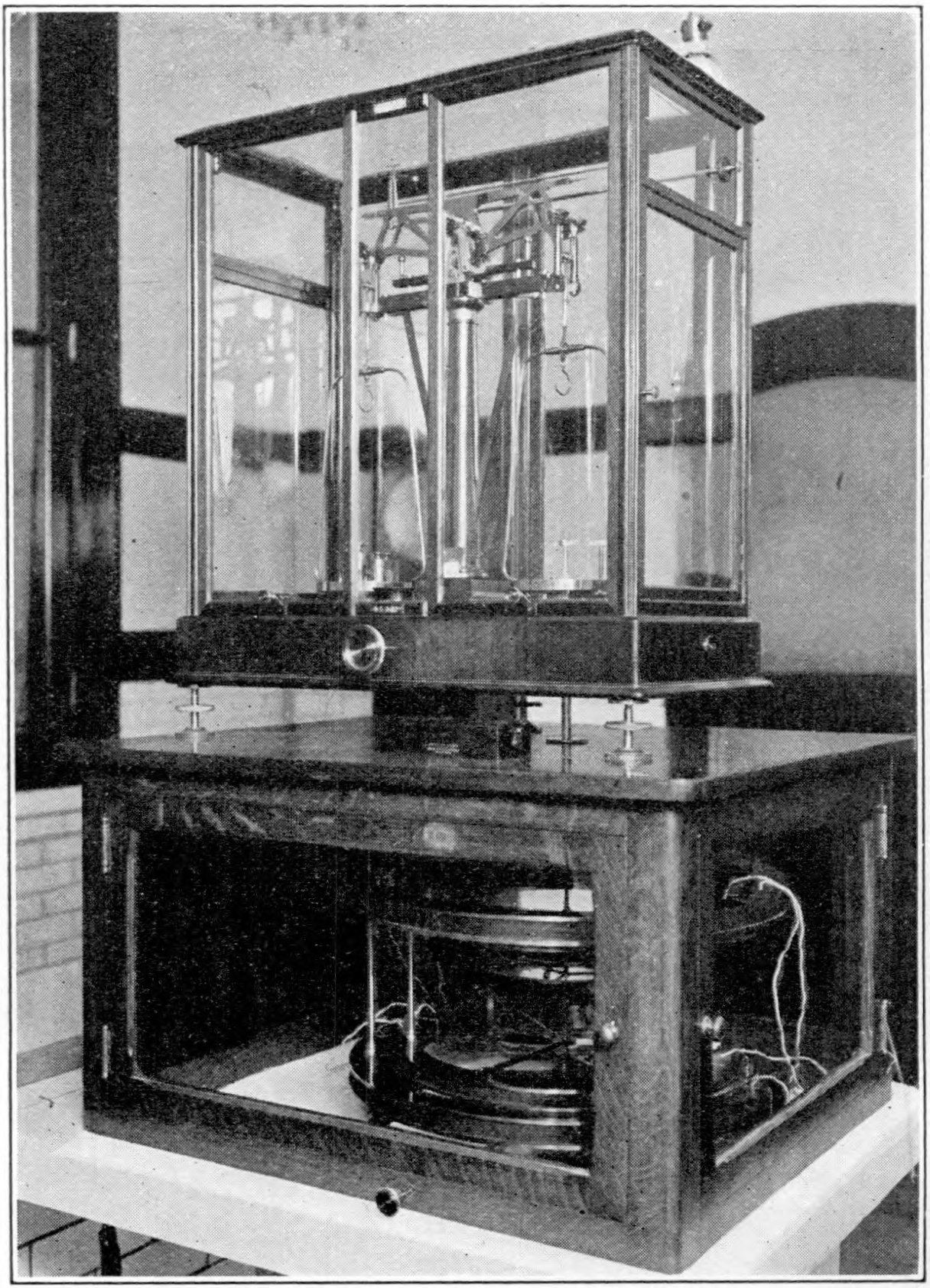 A precision Ampere balance at the US National Bureau of Standards (now NIST that served as a standard for comparing electric current for the United States in 1927. This specific type was called a Rosa-Dorsey current balance. It consisted of a sensitive laboratory balance (top) with one of its pans replaced by a coil of wire (visible under balance), with a second stationary coil of wire below it. An unknown current is passed through the coils, causing the upper coil to be attracted to the lower coil, pulling the right arm of the balance down. Standard weights are put on the lefthand pan until the arms balance. The magnitude of the unknown current can be calculated from the weights and the dimensions of the coils. The accuracy of the Ampere balance was limited because it was dependent on the shape and rigidity of the wire coils. It was replaced as a standard of electric current in the 1960s by atomic standards, such as Josephson junctions.